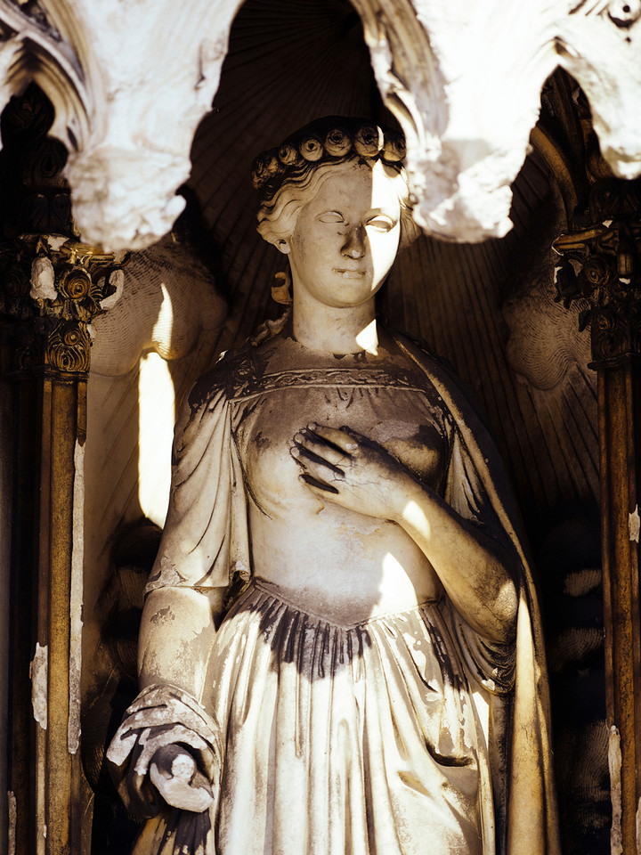 Detail view of marble statue in burial monument of Charlotte Canda, Green-Wood Cemetery, Brooklyn, New York, United States